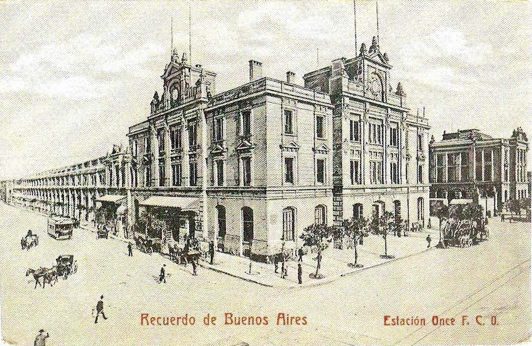 Once de Septiembre railway station of Buenos Aires, view from the corner of Rivadavia and Pueyrredón avenues.